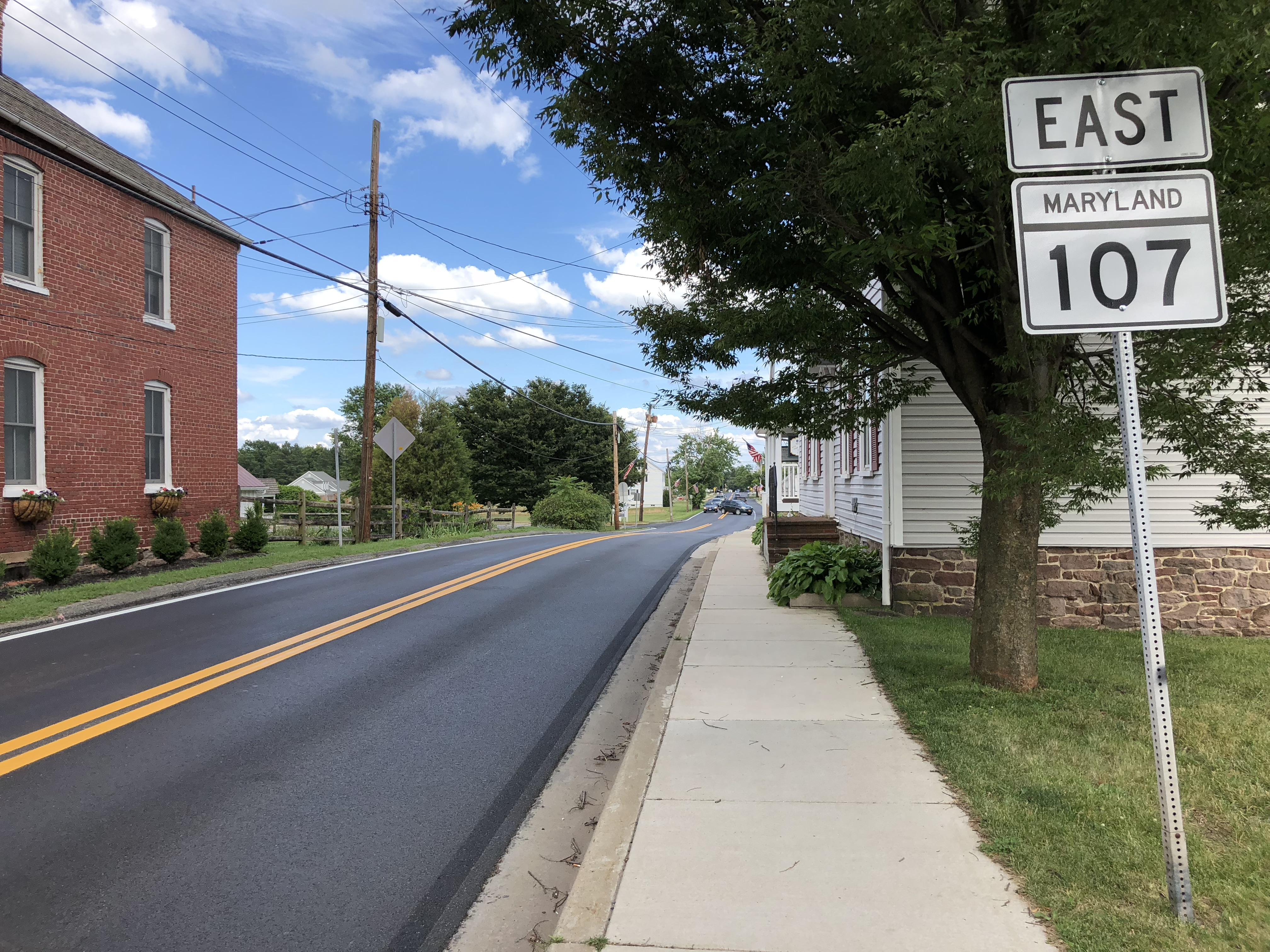 View east along Maryland State Route 107 (Fisher Avenue) at Maryland State Route 109 (Elgin Road) in Poolesville, Montgomery County, Maryland